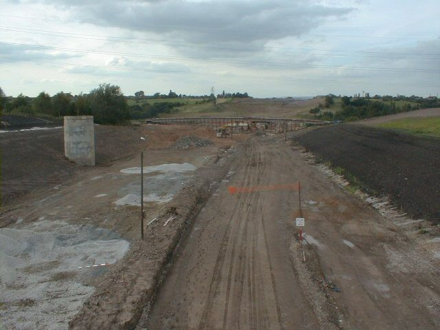 M60 Northbound under construction